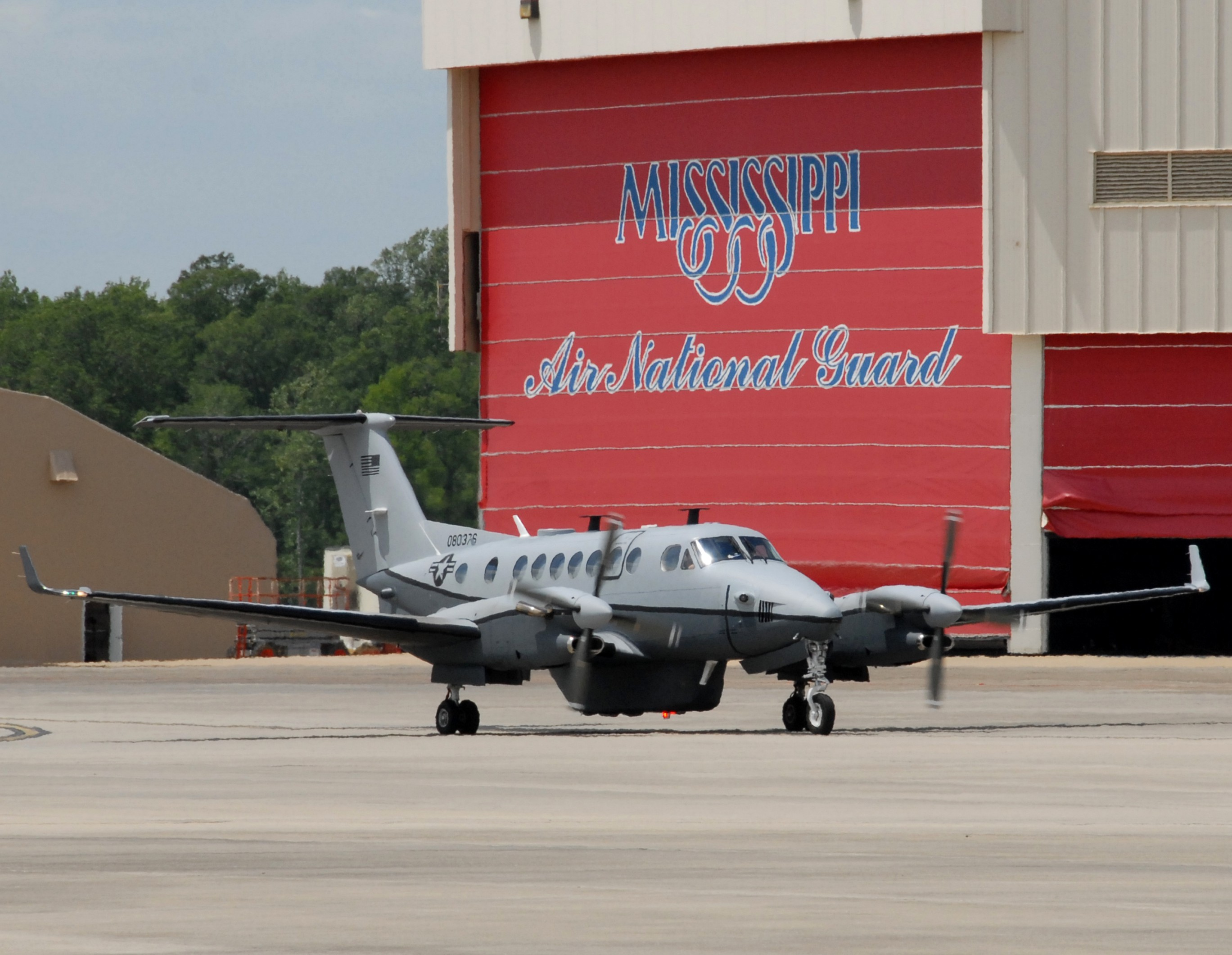 The first U.S. Air Force Beechcraft MC-12W Liberty Project aircraft (s/n 08-0376) arrives at Key Field Air National Guard Base, Meridian, Mississippi (USA), on 28 April 2009. "Project Liberty" was created in response to the U.S. Defense Secretary Robert Gates' initiative to enhance the intelligence, surveillance and reconnaissance support of ground troops. The USAF plans to procure 38 MC-12W aircraft.